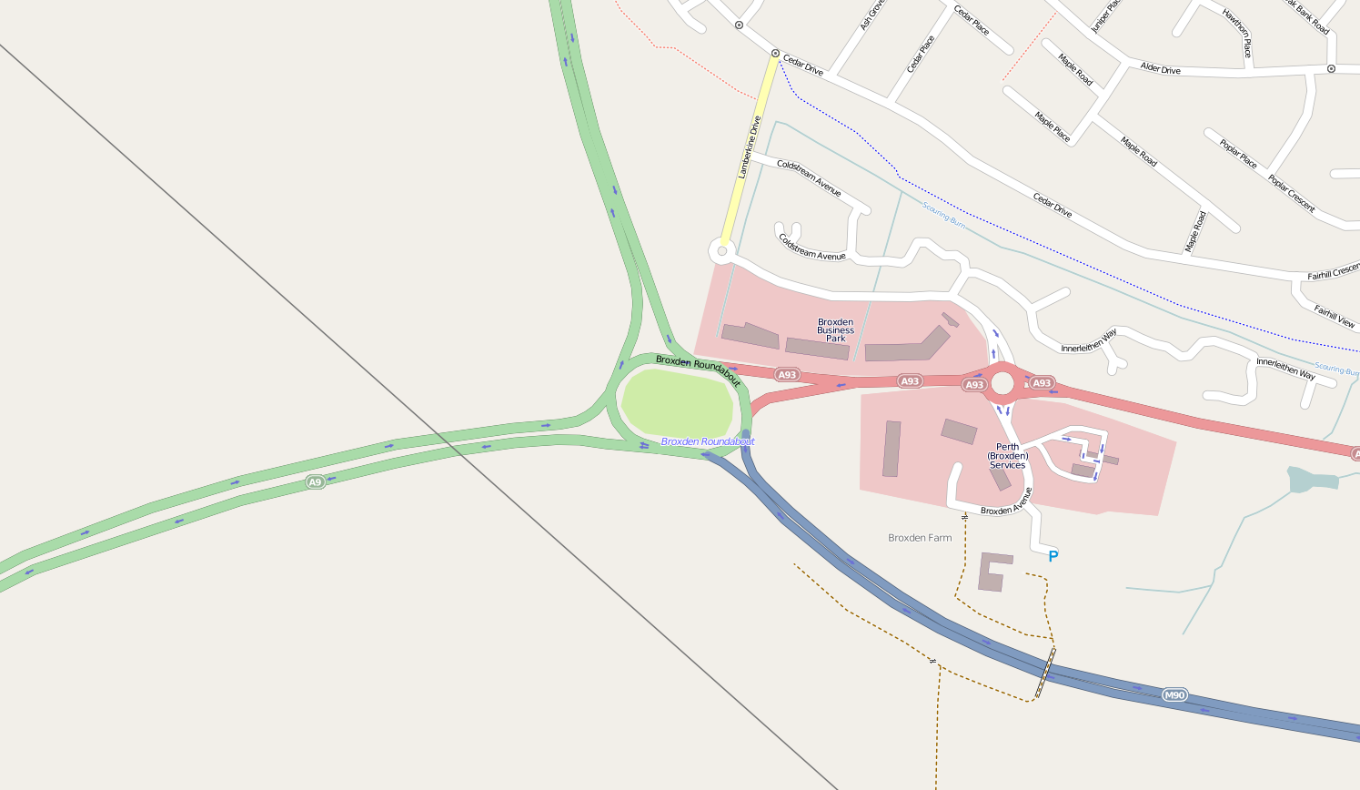 This map may be incomplete, and may contain errors. Don't rely solely on it for navigation.